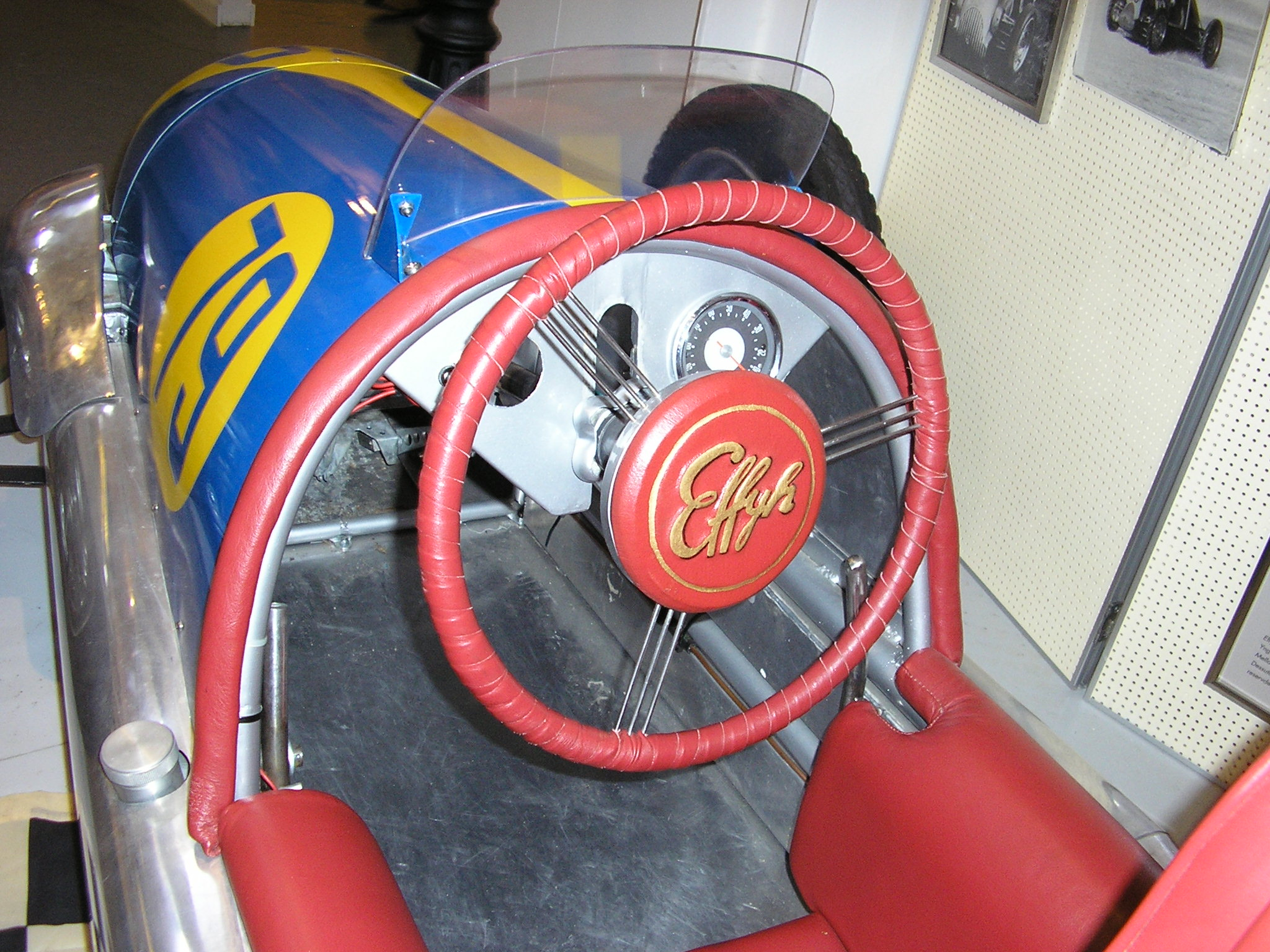 Effyh 500 (1947-1952). Powered by a single cylinder 500 cc JAP engine giving 42 hp at 6000 rpm. Weight: 210 kg. Top speed: 180 km/h.